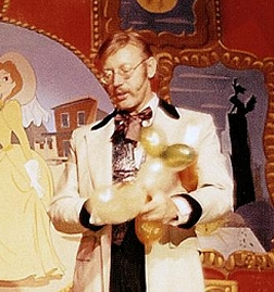 Photo taken at Disneyland in the early 70's during a performance of the Golden Horseshoe Revue. It shows Wally Boag constructing one of his trademark "Boagaloons".